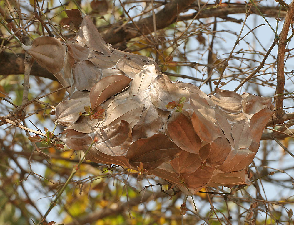 weaver ant, green ant, green tree ant or orange gaster Oecophylla smaragdina in Kinnerasani Wildlife Sanctuary, Andhra Pradesh, India.